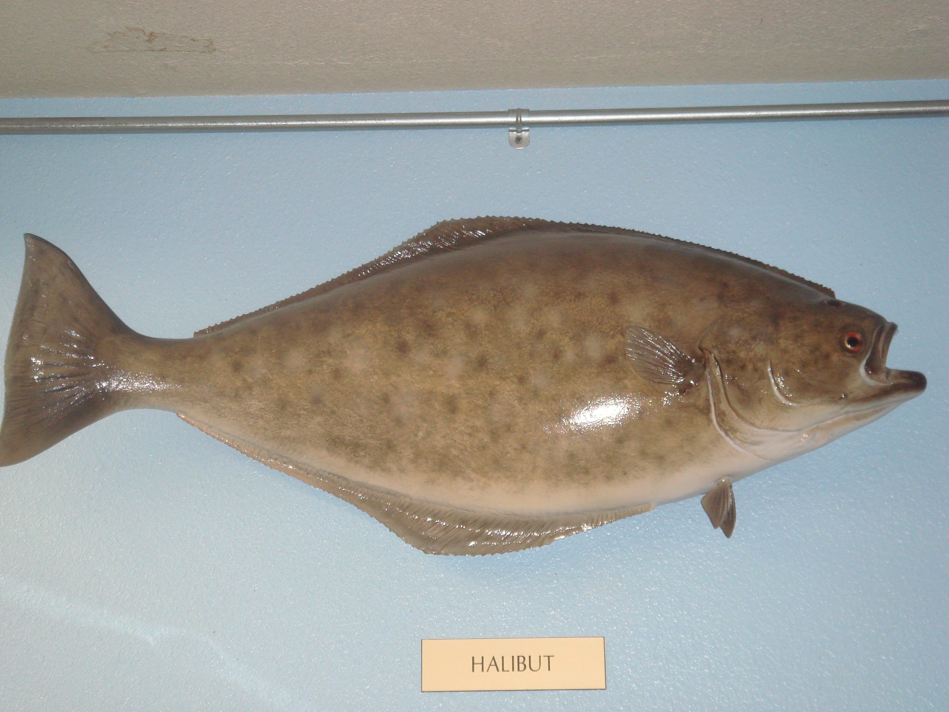 Halibut in Macks Sport Shop, Kodiak, Alaska